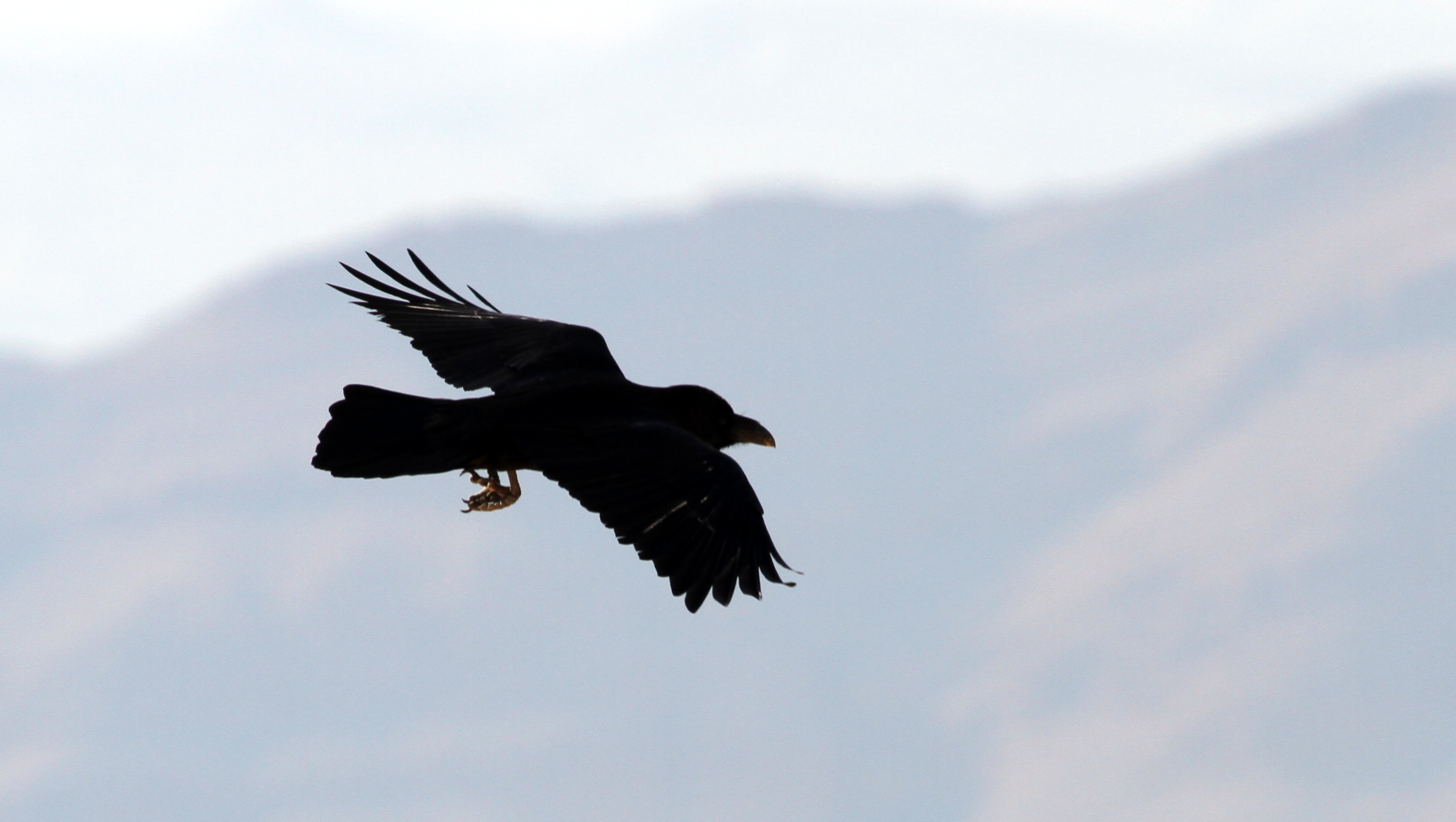 Brown-necked raven Israel